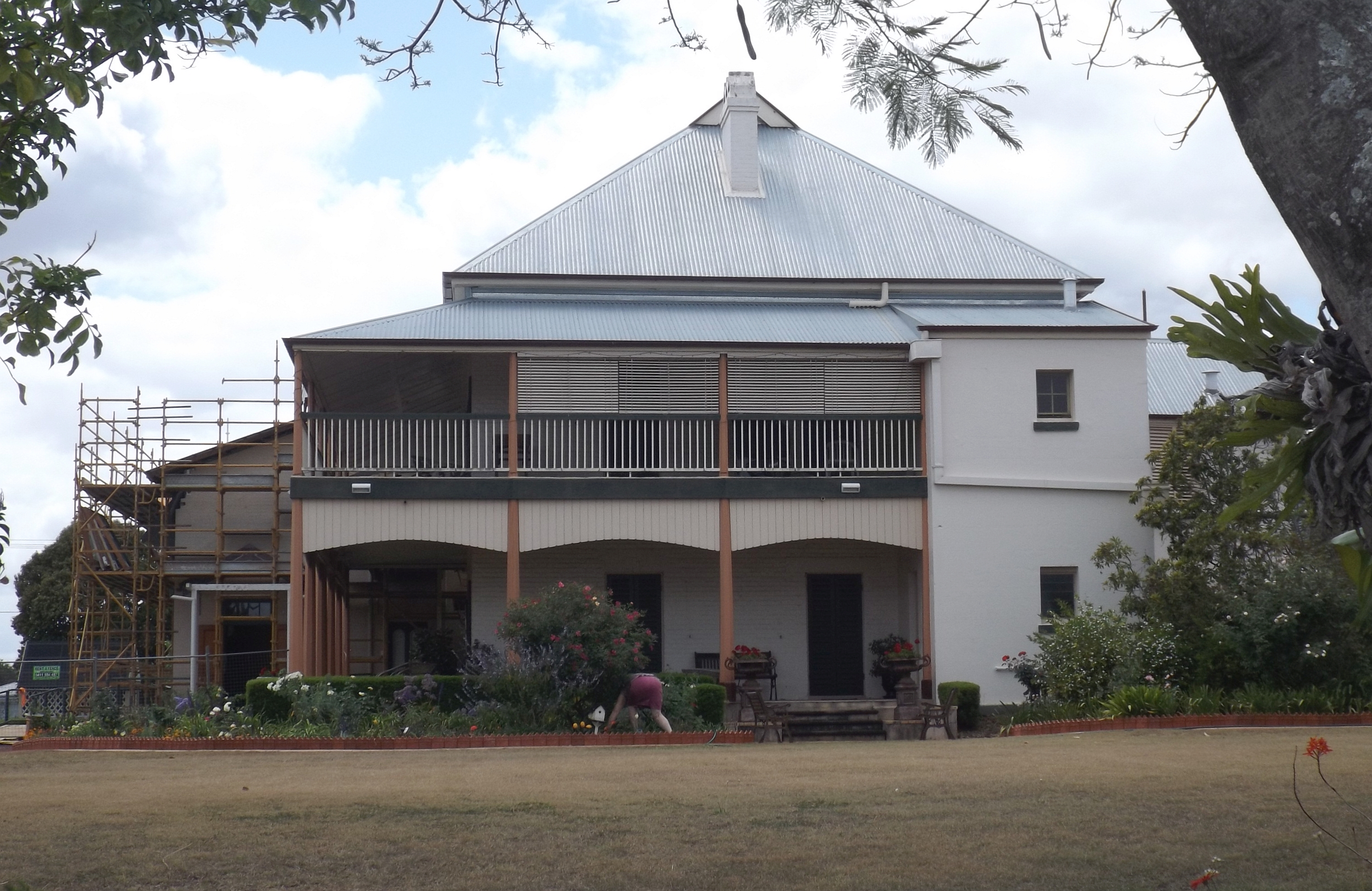 Photo of Booval House at Booval, Ipswich, Queensland, Australia.